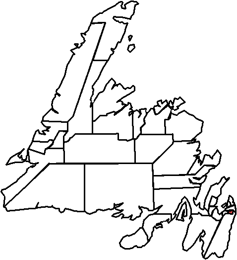 Maps based on images by Earl Warren, from the 2007 elections